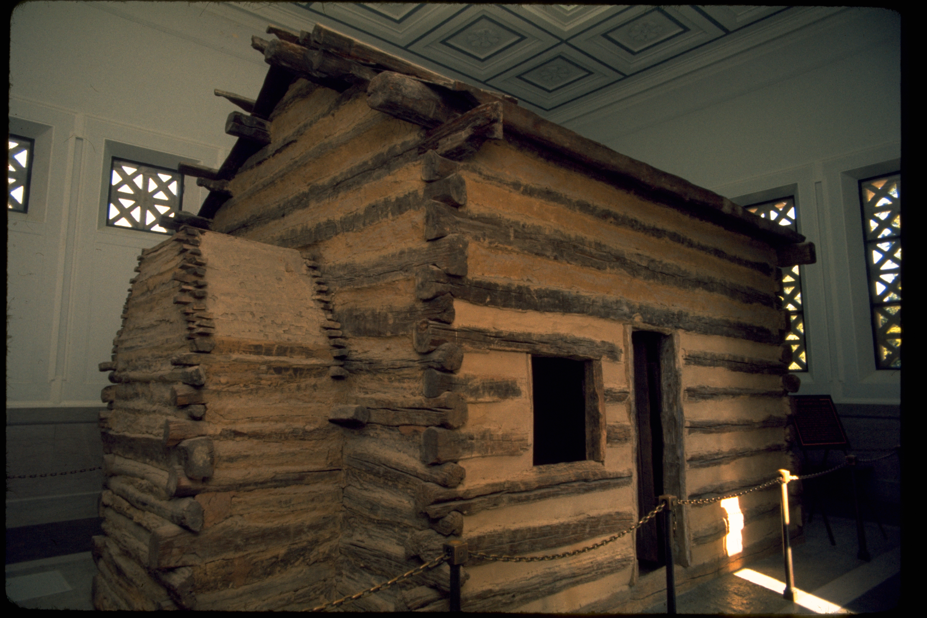 Abraham Lincoln Birthplace National Historic Site, located at 2995 Lincoln Farm Road, Hodgenville, Kentucky. (approx lat/long: ). Lincoln's mother died here